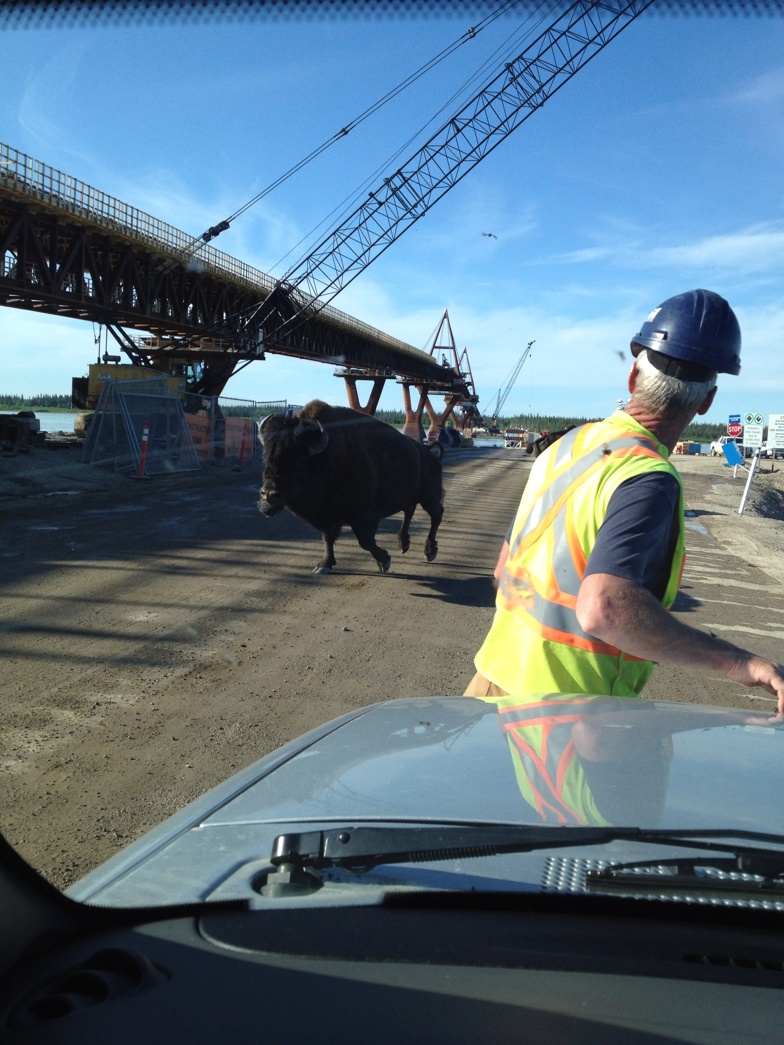 Buffalo at Deh Cho Bridge during construction